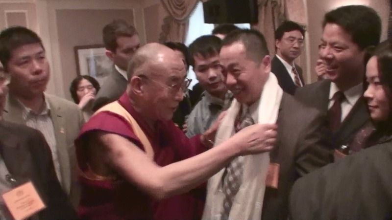 中国民主党主席 刘东星